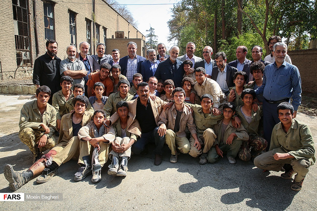 The opening ceremony of the filming of the film "23 People", adapted from a book of the same name derived from the memories of a group of prisoners of Iran–Iraq War, was held on Friday, October 6, 2018, with the presence of Commander of the Ghods Force Qasem Soleimani in the city of Chardanjeh of Tehran. "Twenty Three People" is a new product of the Center for Film and TV Series of the Owj Arts and Media Organization, directed by Mehdi Jafari and Produced by Mojtaba Faravaradeh, is a narrative of a group of Iranian teenage warriors captured by the Iraqi forces during the Iran-Iraq war in 1981.